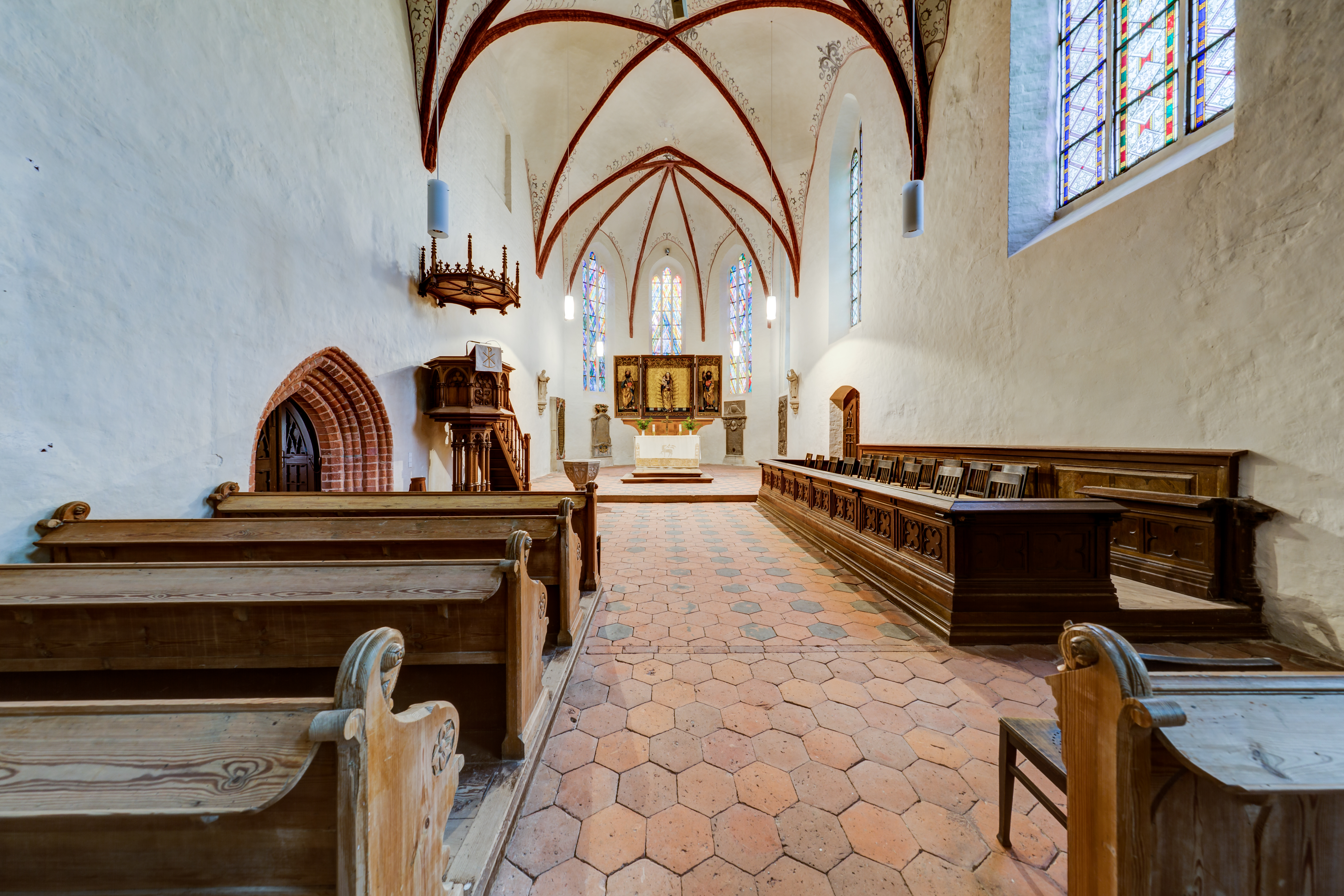 Stiftskirche, Abbey, Monastery Endowment of the Holy Grave, Heiligengrabe, Brandenburg, Germany